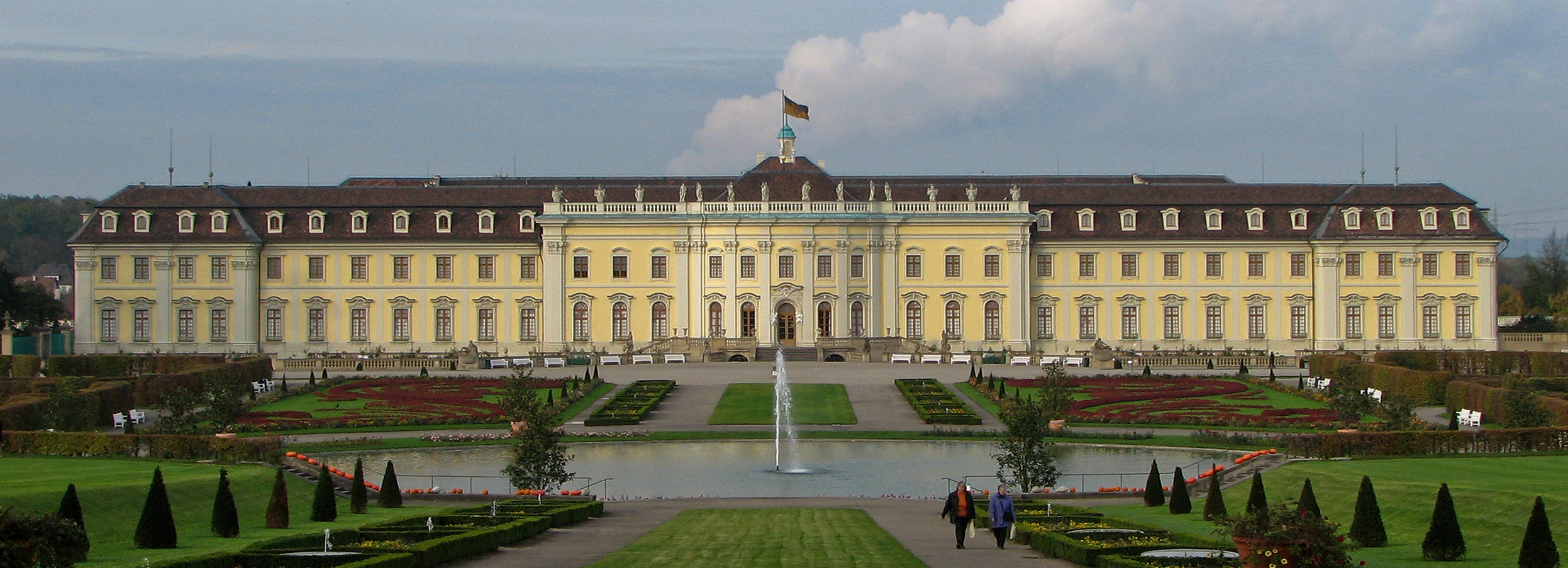 Ludwigsburg, Baden-Württemberg, Germany